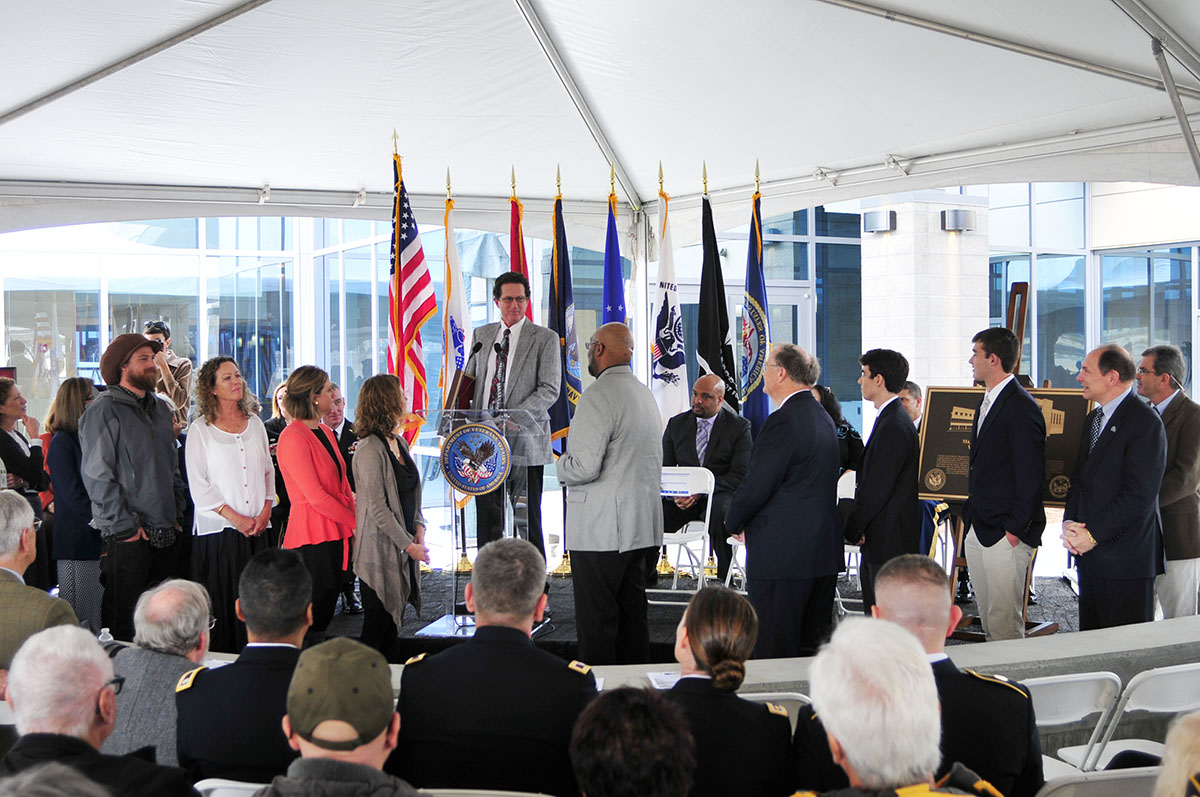 Michael Gourley says a few words of tribute to his father as the family gathers together during the dedication of the Maj. Gen. William H. Gourley VA-DOD Outpatient Clinic in Marina October 14.